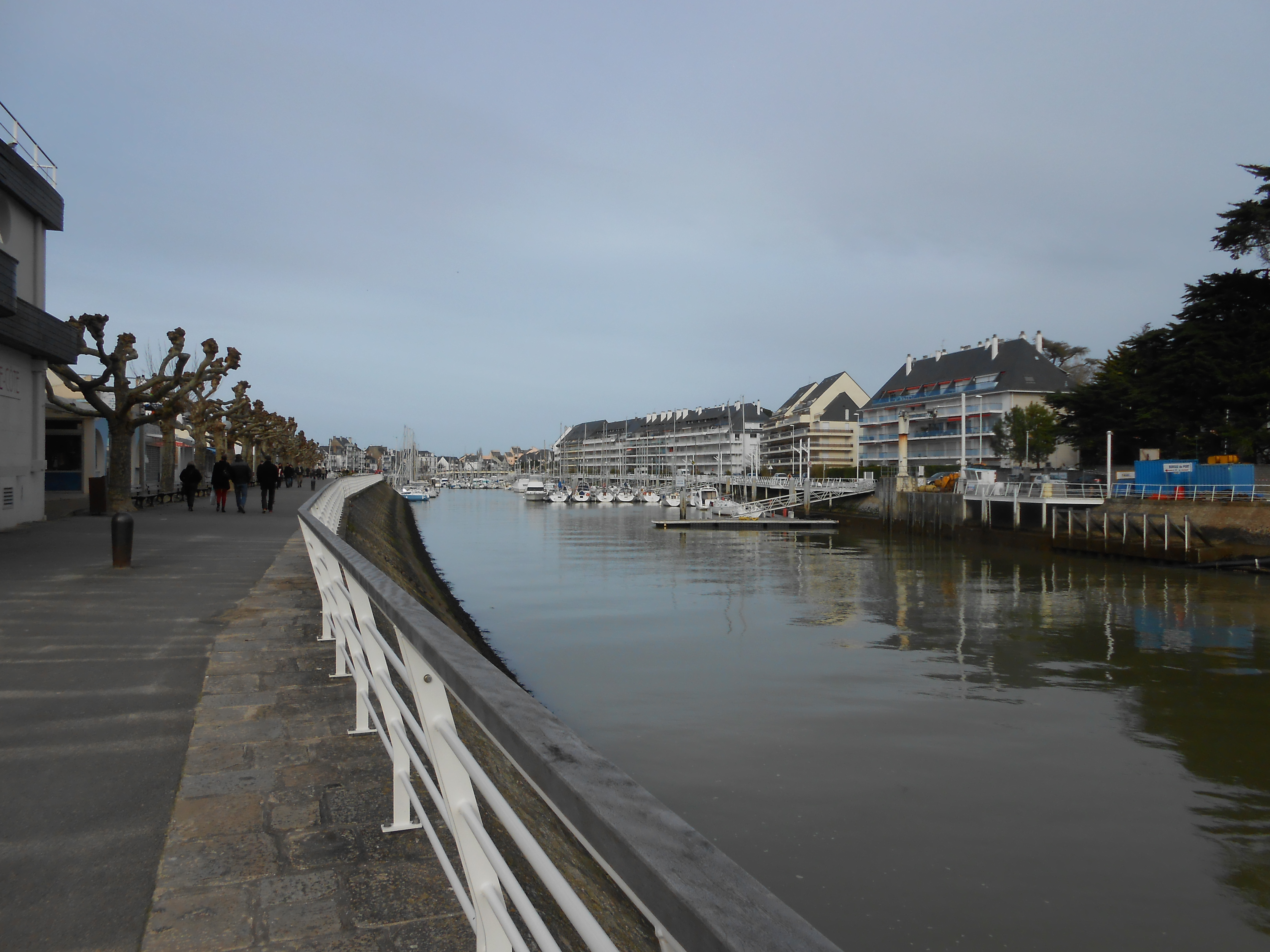 The port of Le Pouliguen (France)